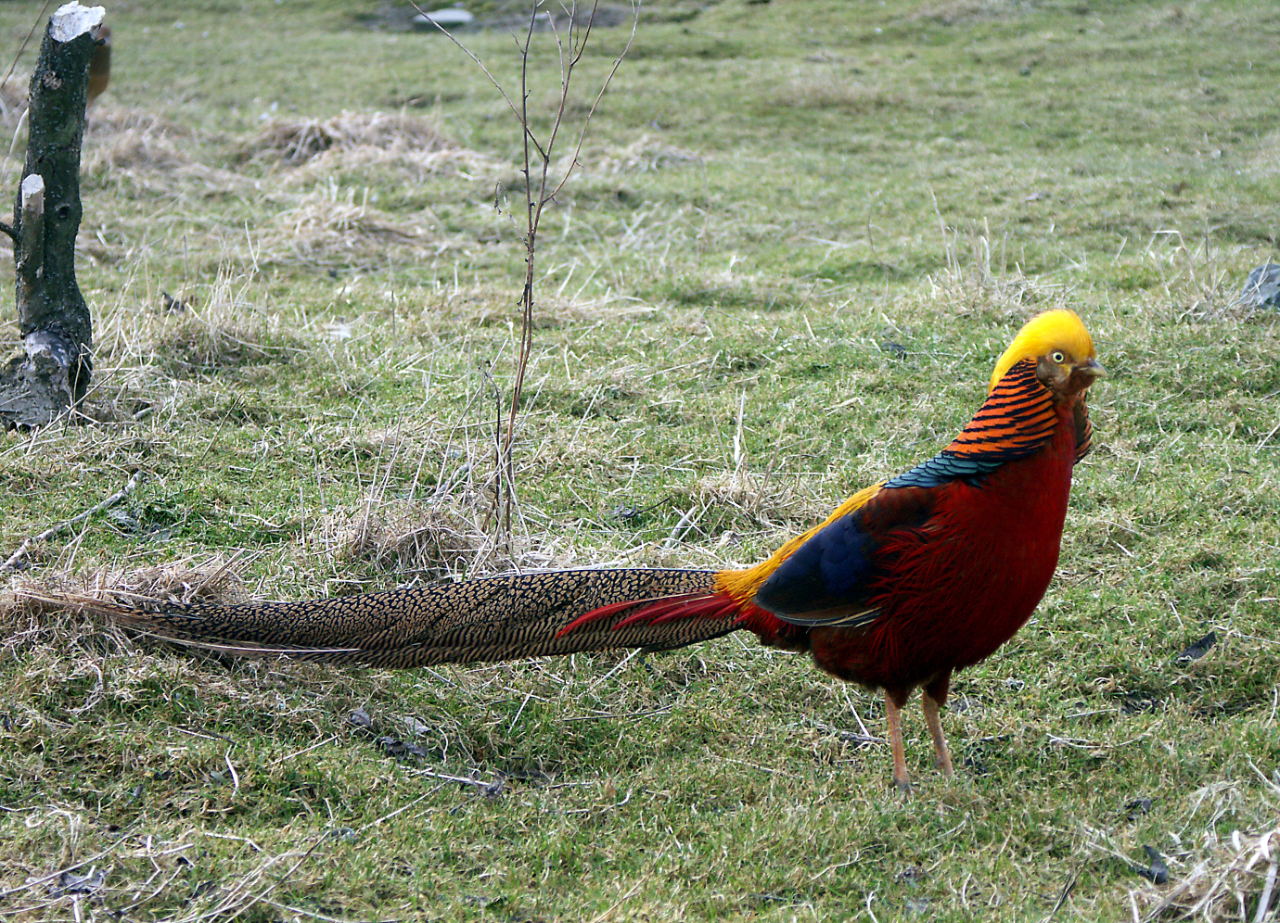 Golden Pheasant (Chrysolophus pictus) in captivity in Svalöv, Sweden.